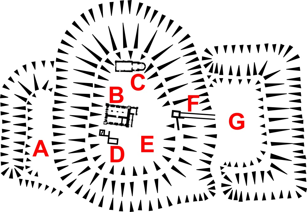 Plan of Castle Rising Castle, after Brown (1988), p.6